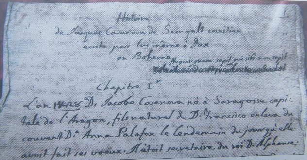 First side of Casanova´s manuscript from the 18. century, Histoire de ma vie, vol. 1, chapter 1, folio 13r